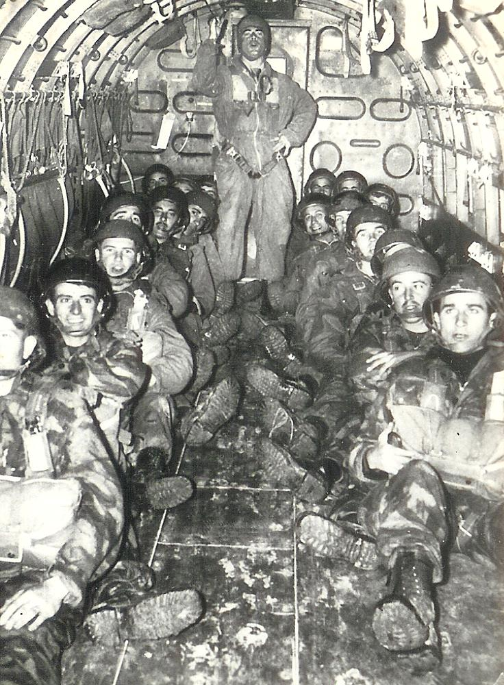 French paratroopers aboard a Douglas C-47 Skytrain.